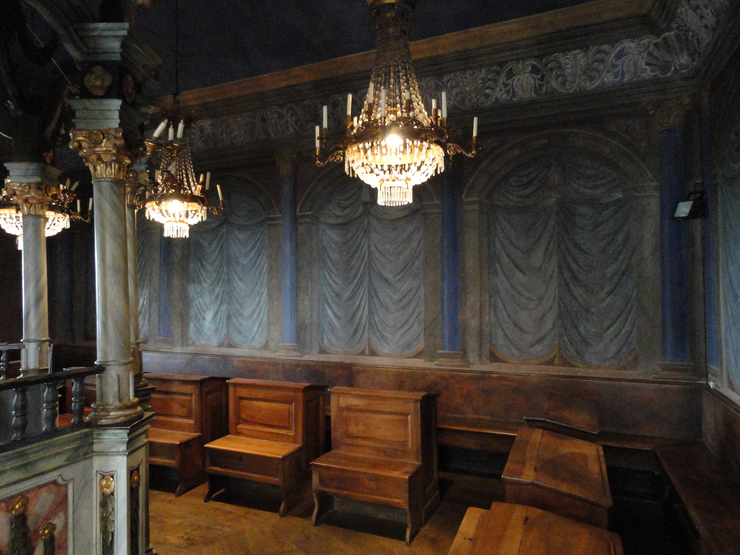 Synagogue of Mondovì (Piedmont, Italy): The wall in trompe-l'oeil